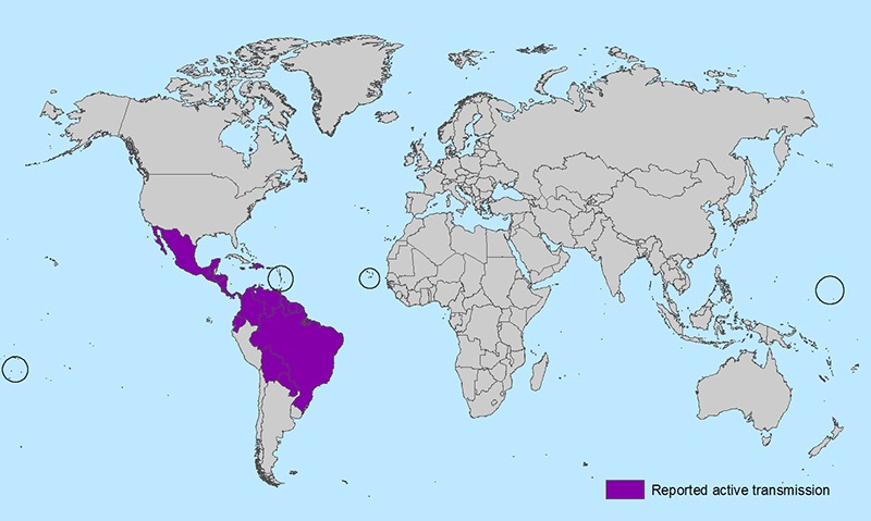 Countries of the world with active local transmission of the Zika virus, as of March 9, 2016